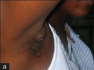 Ulcer on right underarm of a 30 year old Kenyan woman caused by the bite of Rhipicephalus pulchellus